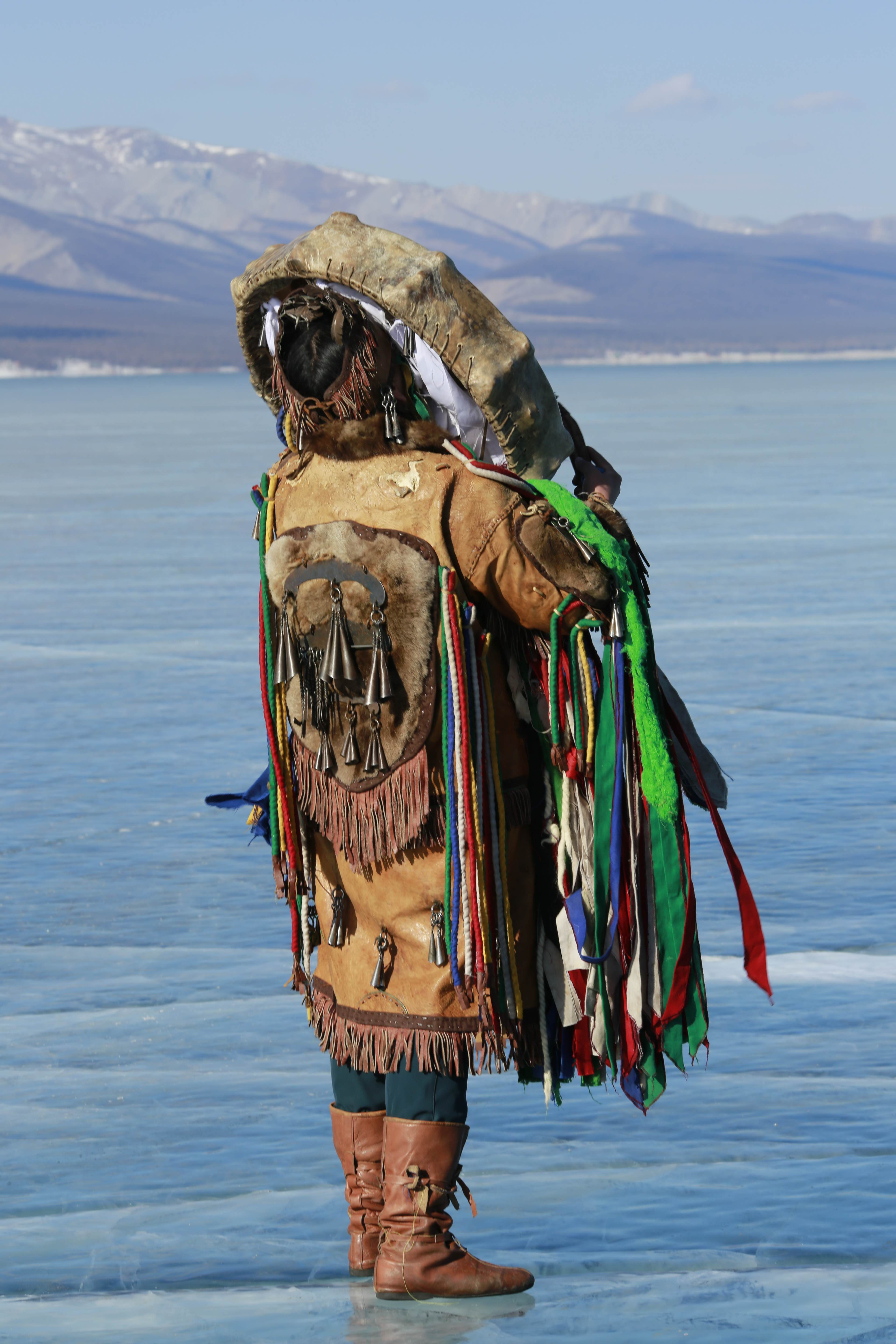 Mongol Darkhad Shaman just starting Shamanic ritual at Khovsgol lake. 3rd March 2019. During "Blue Pearl" annual ICE festival at Khovsgol aimag, Mongolia. Shaman is from "Samgaldai" Shamanic NGO. Монгол: Дархад бөө Хөвсгөл нуурийн Лусыг аргадах зайн үйлийг хийж байна, 2019 оны 3-р сарын 19 өдөр. "Хөх Сувд" мөсний баярын үеэр авсан зураг, Монгол улс, Хөвсгөл аймаг, Хатгал. "Хаант Тэнгэрийн Самгалдай" төв ТББ-ийн удганы зураг.